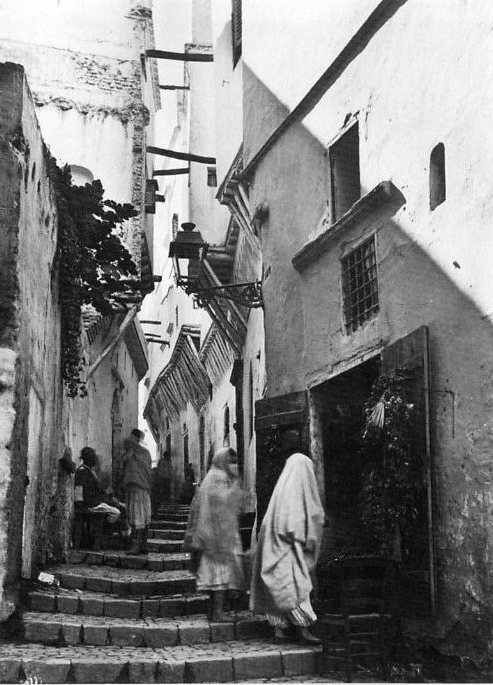 Algiers' casbah, 1900.